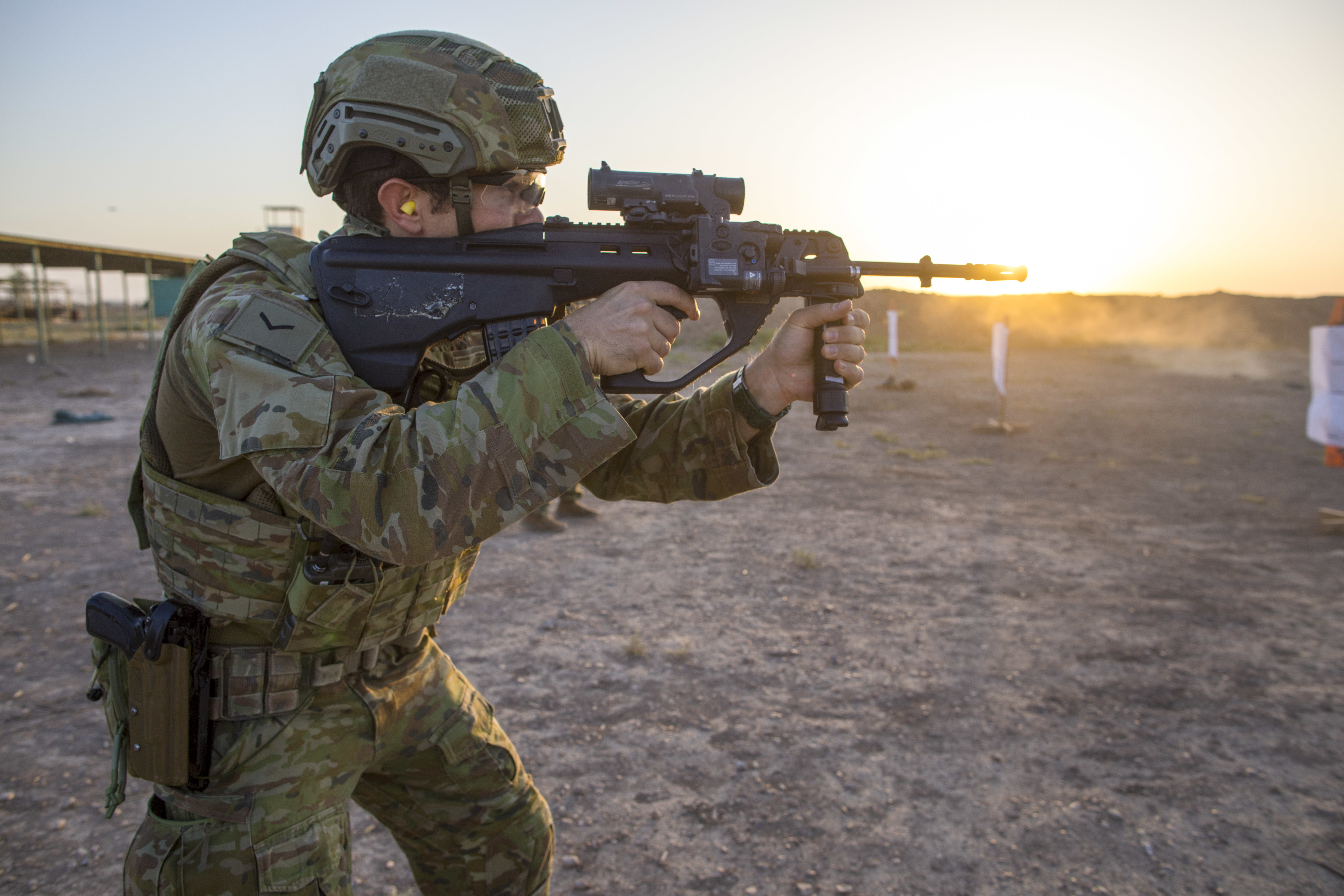 An Australian soldier, with Task Group Taji, engages a target with his EF88 Austeyr during a range shoot at Camp Taji, Iraq, June 16, 2018. Task Group Taji members conduct regular range practices to maintain their weapon proficiencies whilst on deployment in order to continue to provide high quality training to the Iraqi security forces. A Coalition created from a diverse international community will continue its support to the people of Iraq in order to enhance the capabilities of the nation to ensure security and stability. (U.S. Army photo by Spc. Audrey Ward)